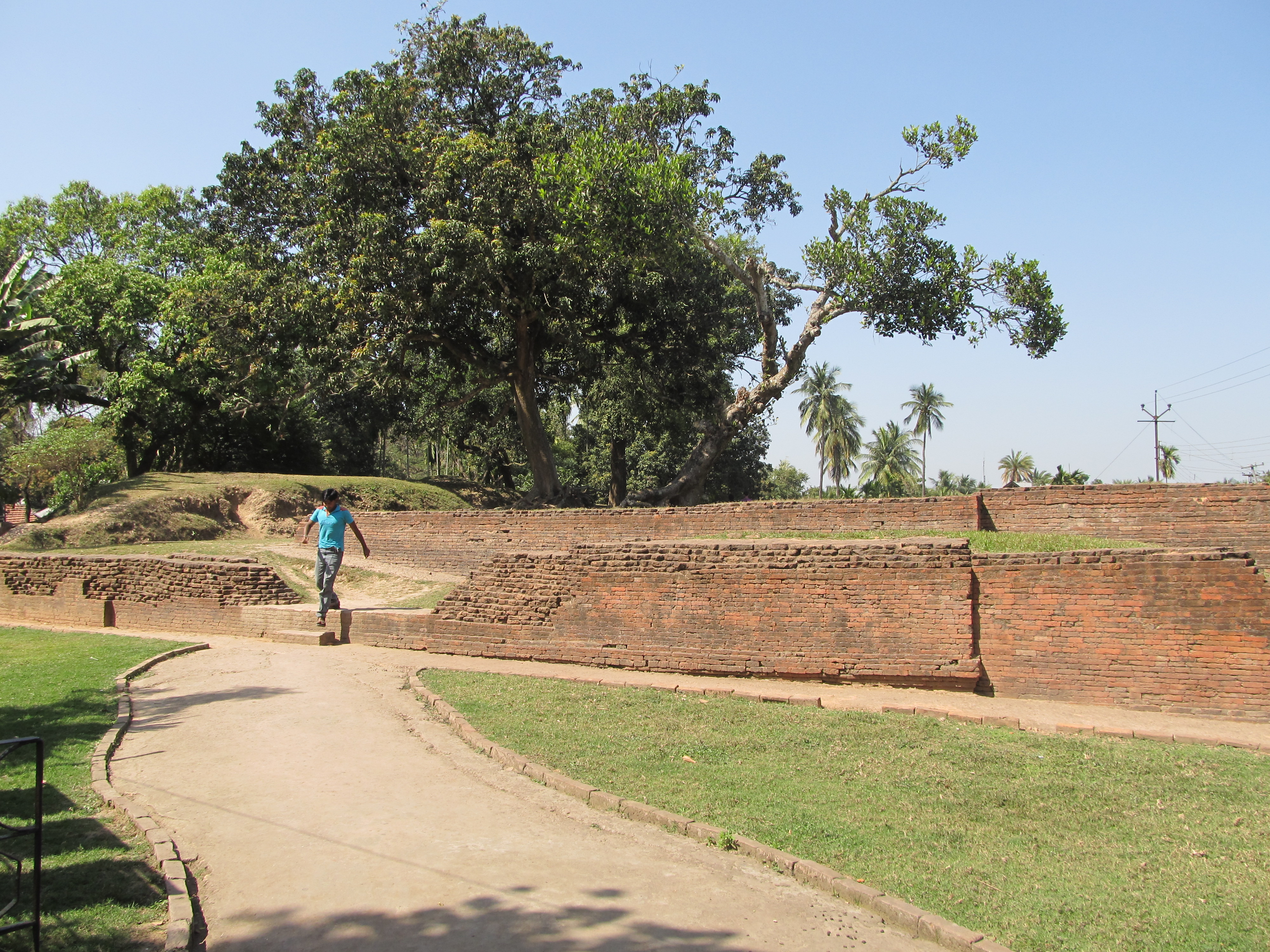 Khana-Mihir Mound (Khana-mihirer Dhipi, hi. Khana-mihir ka tila) also known as (Barahamihirer Dhipi) forms part of huge fortified township named Chandraketugarh. It was first excavated by the Asutosh Museum of Calcutta University in 1956-57 revealing a continuous sequence of cultural remins from 11th century BC pre-mouryan period of 12th century AD Pala period. The most remarcable discovery of the excavation is a polygonal brick temple facing north. This temple has projections on three sides and it is connected with a square vestibule. This temple which was earlier thought to be of Gupta period infact belongs to Pala period which is presumed by its plan adchitecture and decorative designs. The excavation has also unearthed Buddha image, votive stupas, terracotta plaques depicting Buddha and Jataka stories. Coins, terracotta sealing and different types of beads of early historical and historical periods.